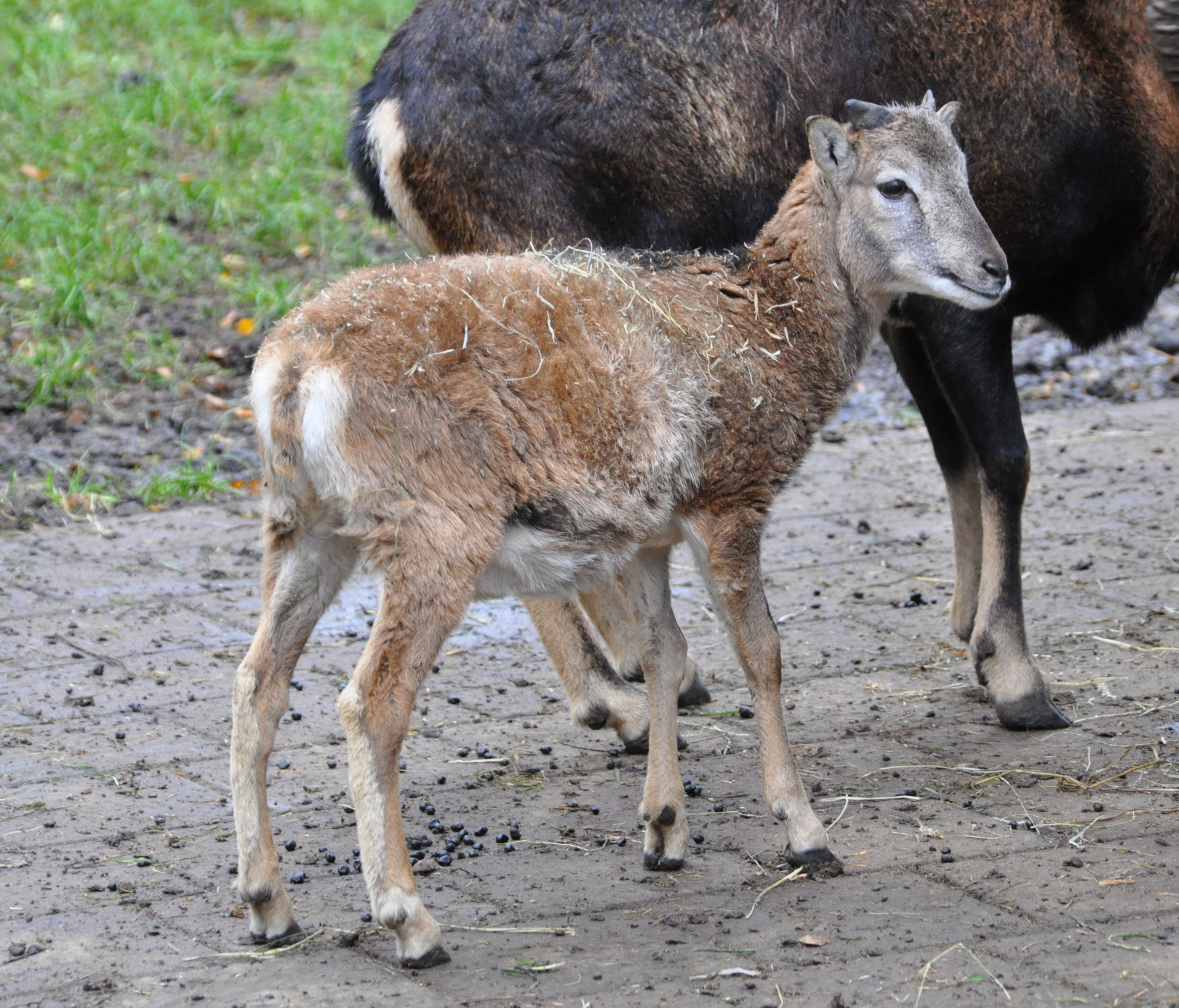 Soay sheep (Ovis orientalis aries) in the Lüneburg Heath wildlife park, Germany.